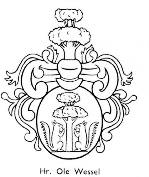 Ole Wessel, priest in Rygge Norway